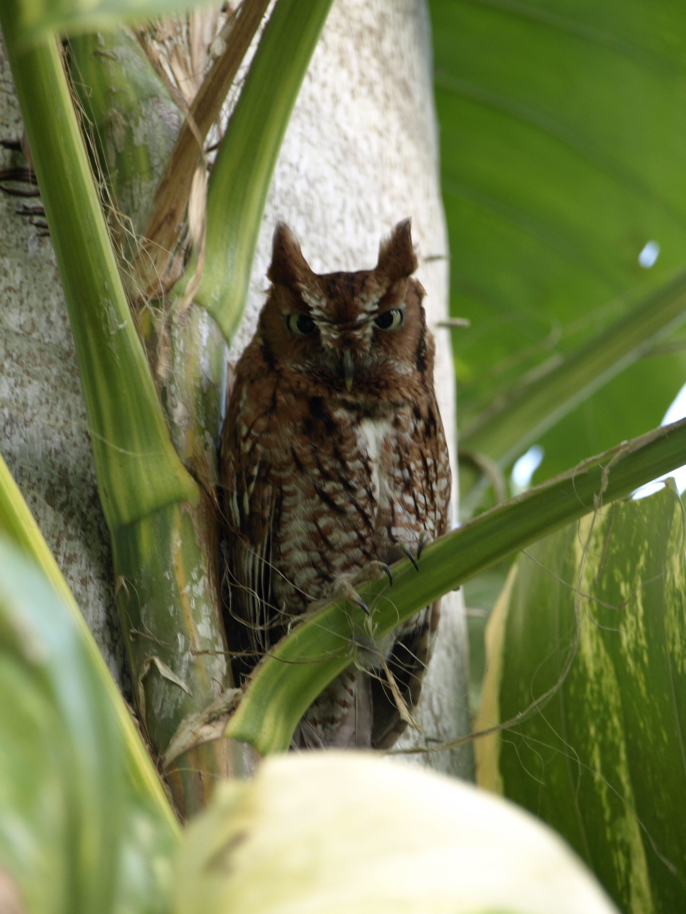 Megascops asio rufous morph, South Miami, Florida, USA.